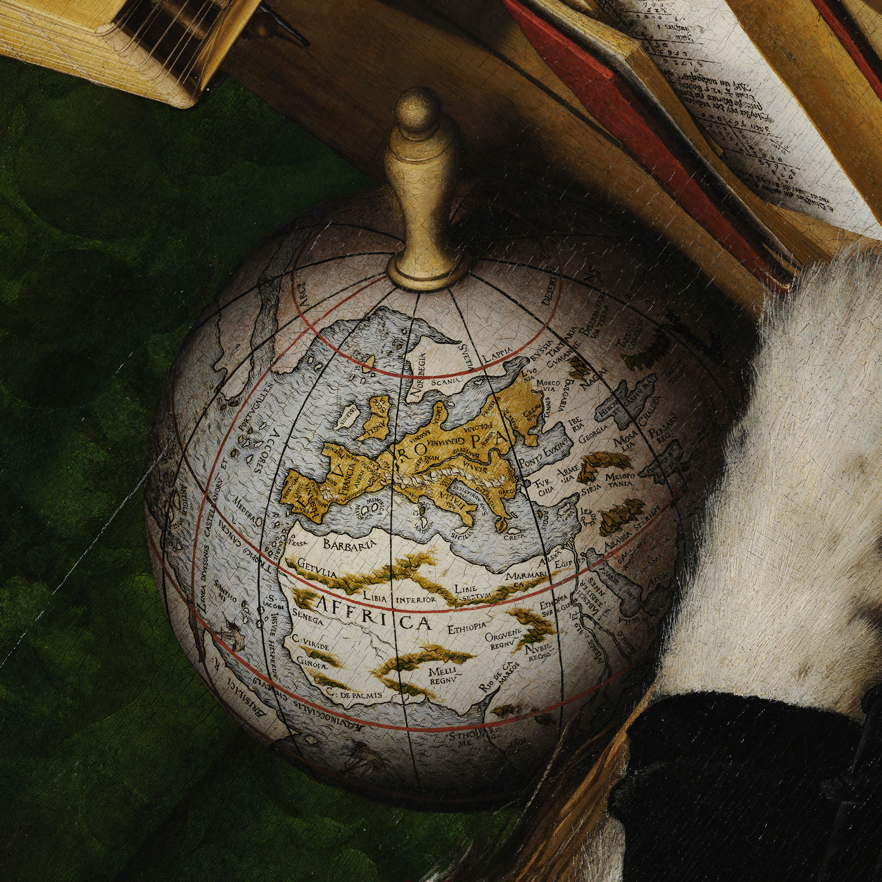 Detail of the globe from The Ambassadors by Holbein 1533 (rotated approximately 217° clockwise)